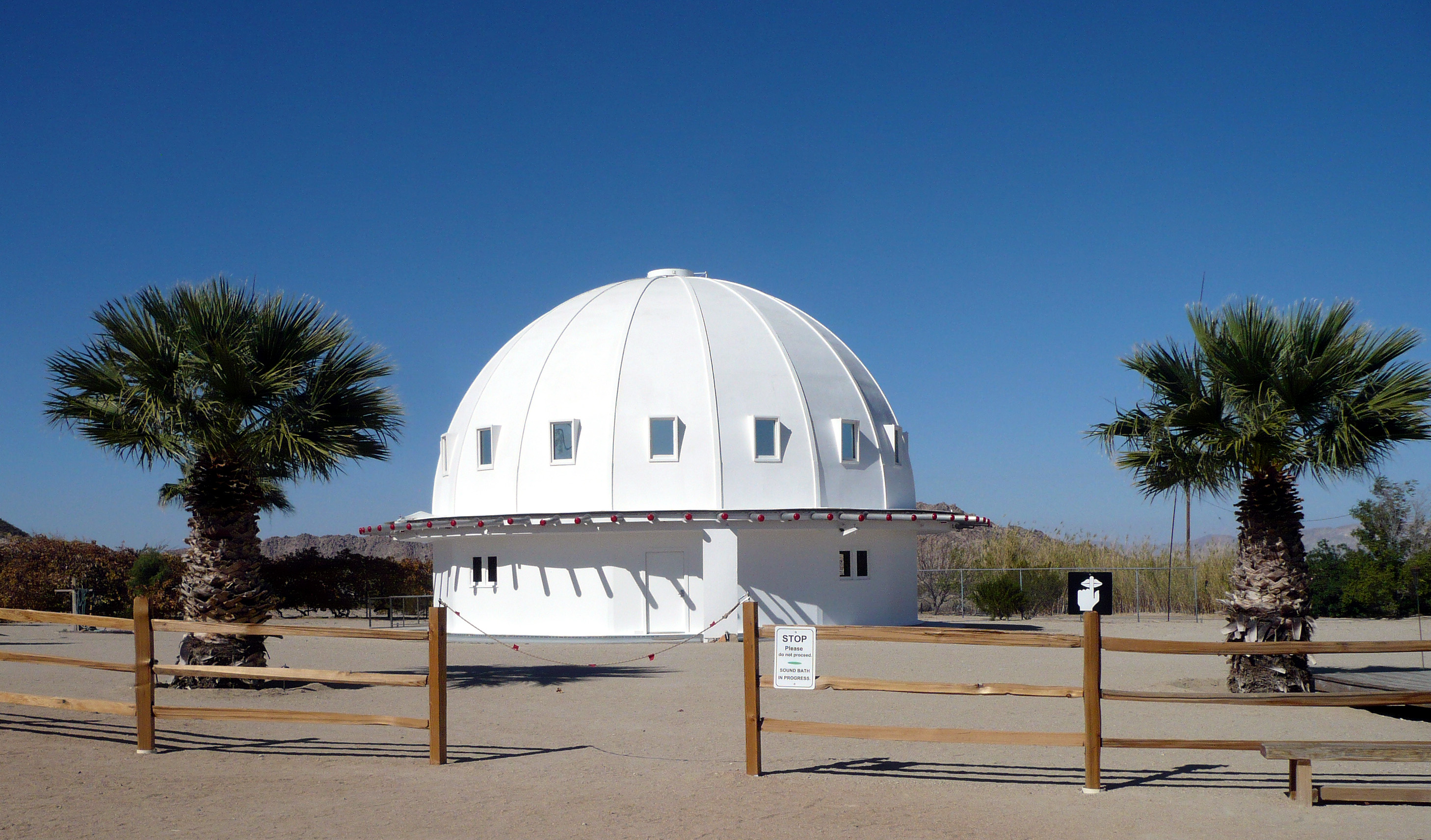 The Integratron as seen during one of its Sound Bath sessions in the Fall of 2017